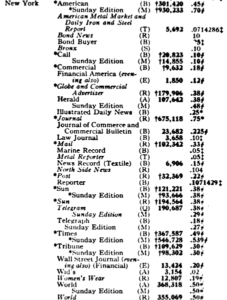 Circulation of newspapers in New York City, in July 24 1919 issue of Editor & Publisher